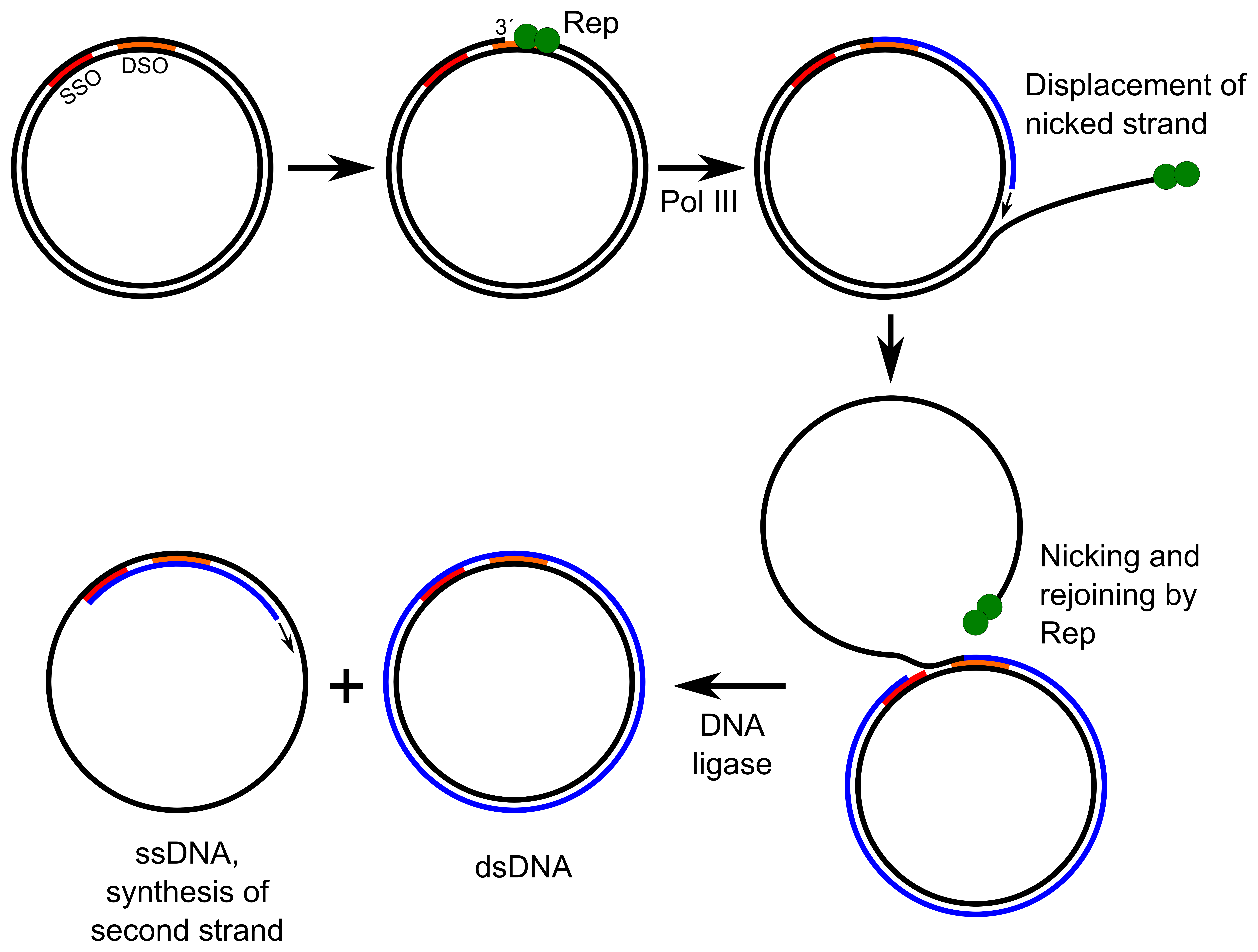 Rolling-circle replication is initiated by the Rep protein, which is encoded by the plasmid. It binds to the double-strand origin (DSO) of the plasmid. The protein then nicks one of the strands and remains covalently bound to the 5' phosphate end of the nicked strand. The free 3' hydroxyl end is released to serve as a primer for DNA synthesis by DNA polymerase III. Using the unnicked strand as a template, replication proceeds around the plasmid, displacing the nicked strand as single-stranded DNA. Once this single-stranded circle is complete, the 5' end which is attached to Rep and the displaced 3' end are ligated in a phosphotransferase reaction. The double-stranded circle is closed as well when the DNA Polymerase returns to the DSO. This probably involves creating a second nick and the host DNA ligase. The replication of the displaced single strand starts at the single-strand origin (SSO), which is only synthesized when the displacement is almost complete. At the SSO, the RNA polymerase makes a primer for DNA polymerase III, which synthesizes the complementary strand. Once it is finished, DNA polymerase I replaces the RNA primer and DNA ligase joins the ends.